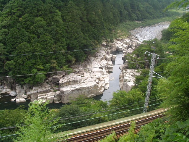 a ravine called "nezame no toko", Kiso river in Agematsu,Nagano prefecture, Japan.